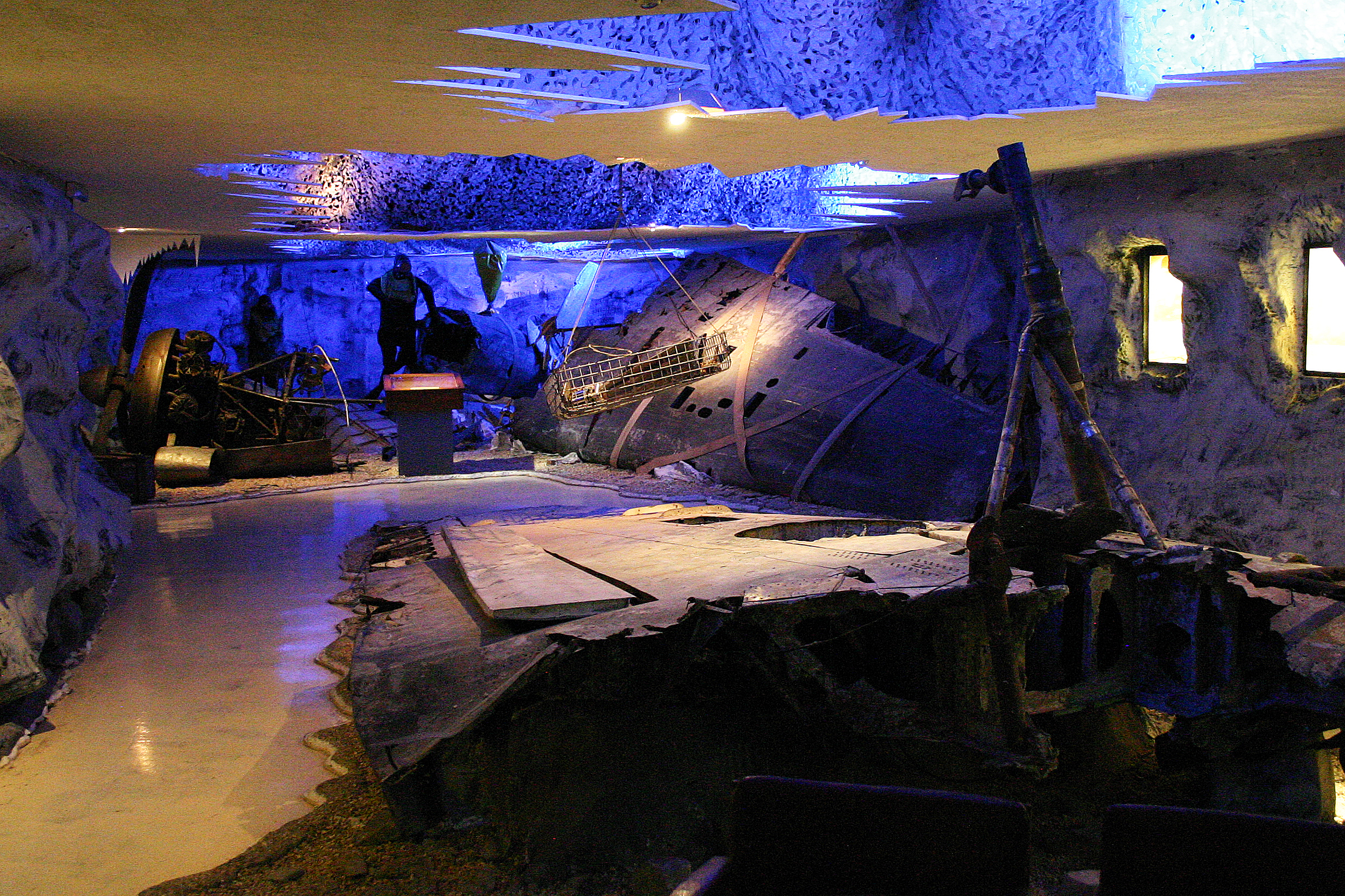 Wreckage, consisting of fuselage from the firewall forwards, both wings and rear fuselage with tail. Recovered from Norway in 1974. This 800sqn Skua was shot down in 1940 by a Heinkel He111, which then crashed nearby. Displayed in 'as found' condition in it's own seperate exhibition room. FAA Museum Yeovilton. 15-6-2011